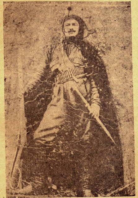 Gurian outlaw